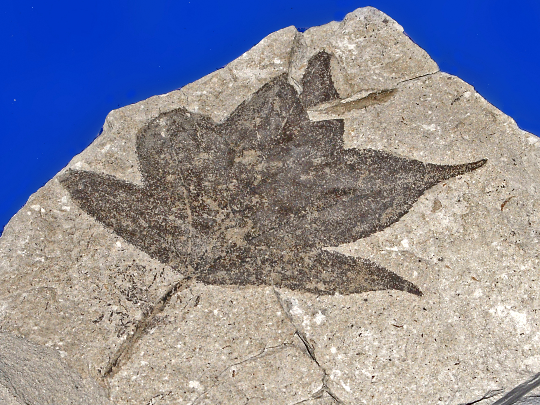 Fossil leaf of Liquidambar from Pliocene of Italy, on display at the Museo Paleontologico, Asti